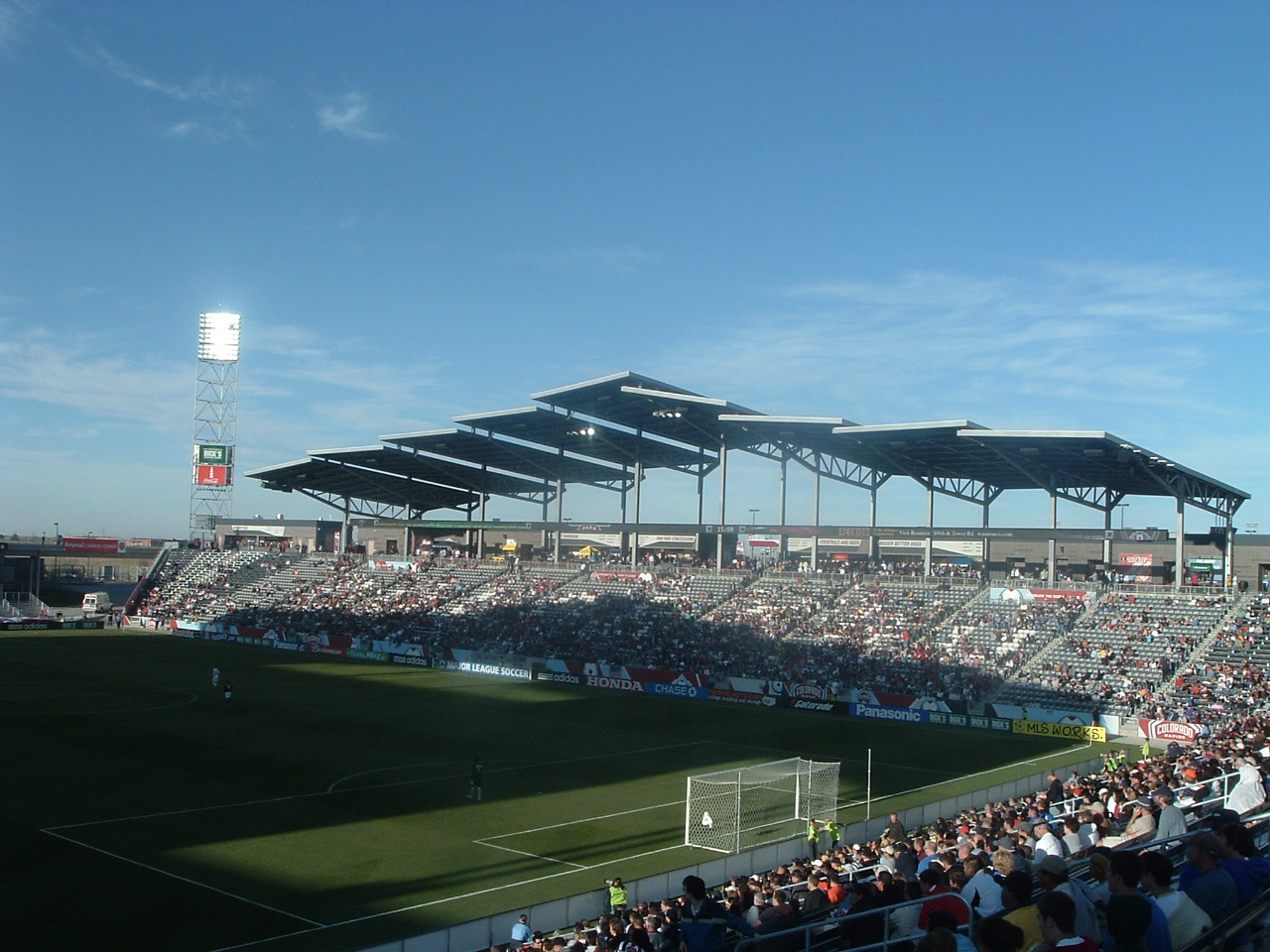 Our local Major League Soccer team, the Colorado Rapids, just opened a soccer specific stadium here in Canada. Word has it from those in the know that it's one of the uglies soccer stadiums in the country. Andrew and I missed the opening home game but had a chance to check out the second game at the new park. Pretty impressive. As for the stadium name, well, what can you do? The game and the city are cool but the name doesn't live up to either. It's the professional sports equivalent of "Bob's French Food." There must be a restaurant with that unlikely name somewhere in America.